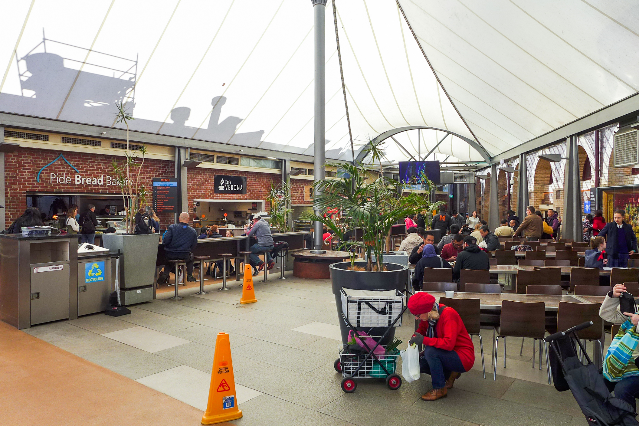 Queen Victoria Market Food Court